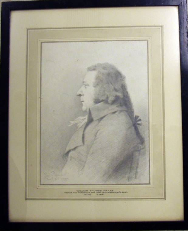 British; Drawing of William Thomas Parke (1762-1847); Works on Paper